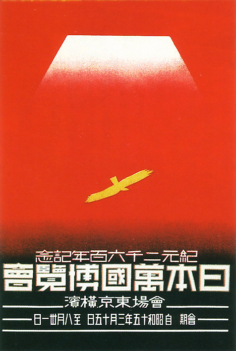 Expo 1940 (Kigen 2600-nen Kinen Nippon Banpaku Hakurankai) Poster.